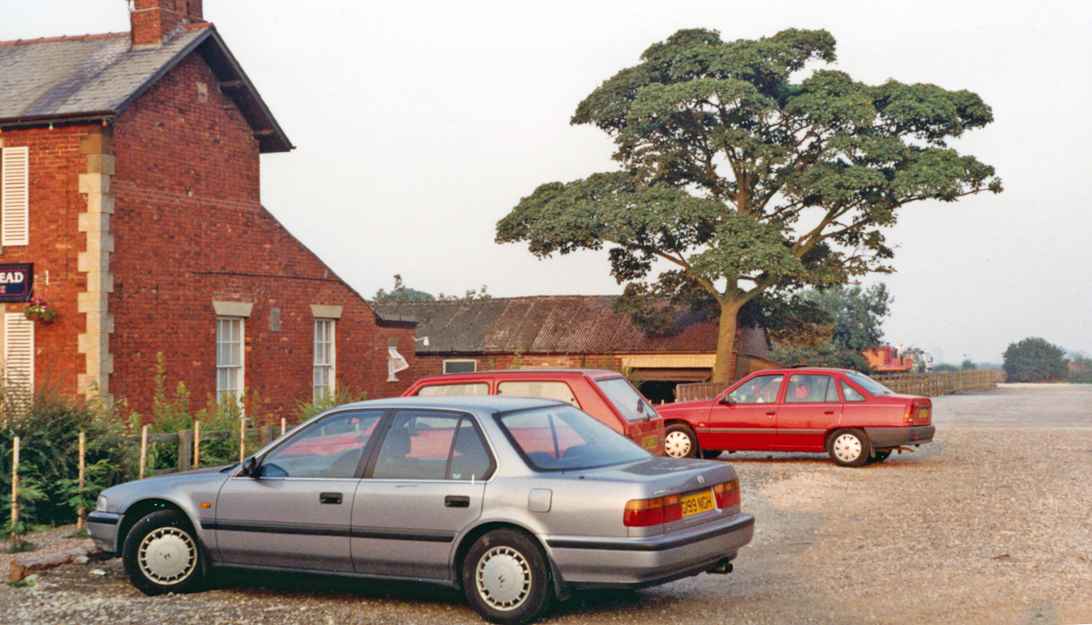 Amotherby: site of former station, 1991. View eastward, towards Malton from the former station (closed 1/1/31) on the ex-NER line from Pilmoor via Gilling East that lasted until 17/10/64. The station house may have become the local pub on the left